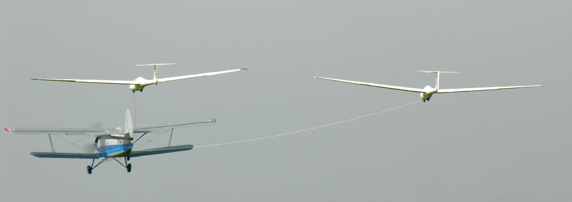 Germany, Baden-Württemberg, LY-AVI taking off at Hilzingen airfield towing two gliders